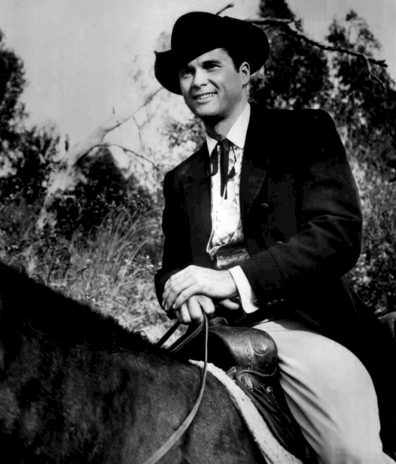 Photo of Robert Colbert as Brent Maverick from the television program Maverick.